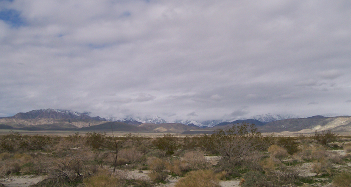 West side of the City of Desert Hot Springs.